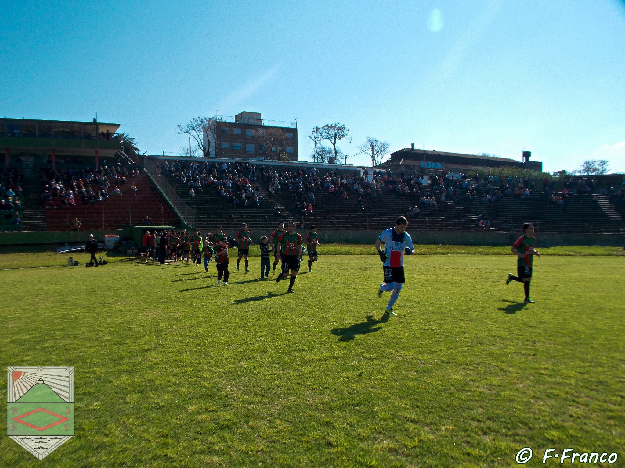 Rampla Juniors - River Plate - 0:2, 31 August 2014